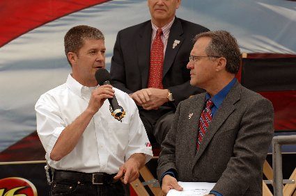 NASCAR driver Ward Burton (left) stands next to Doug Rice, president and general manager of Performance Racing Network while talking to the crowd during the unveiling ceremonies in Victory Lane at Lowe's Motor Speedway in recognition of 'American Heroes Memorial Day salute to the Armed Forces' at the Lowe's Motor Speedway in Charlotte, N.C., May 8, 2007. Defense Dept. photo by William D. Moss